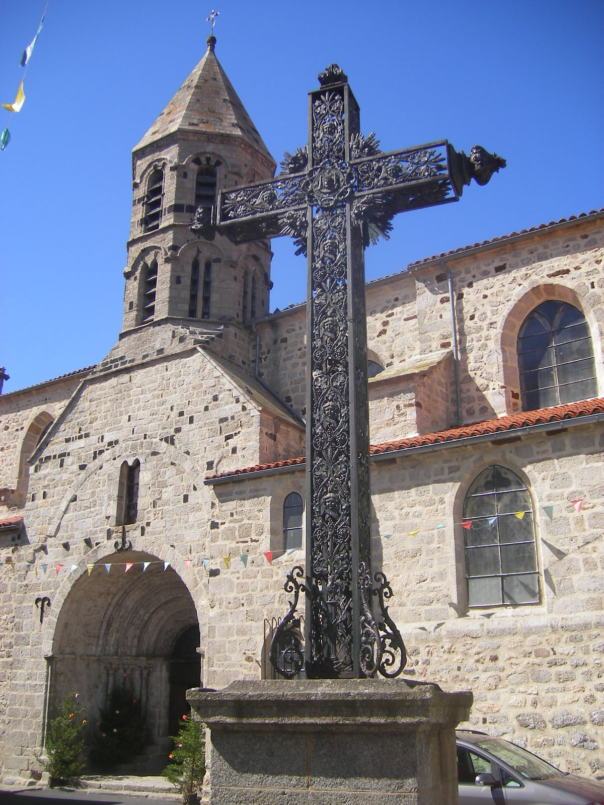 Saugues, church